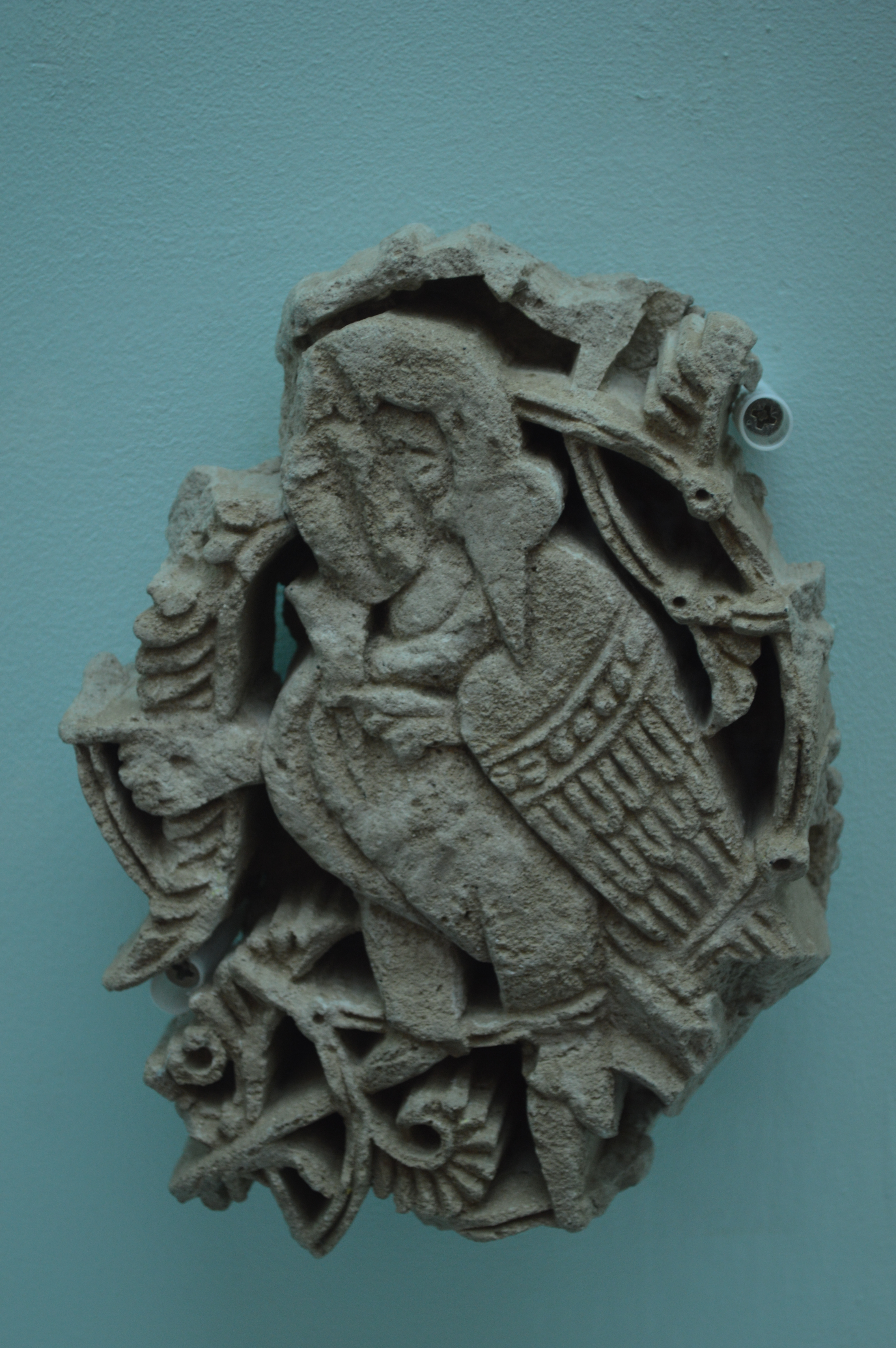 Harpia (guixeria)